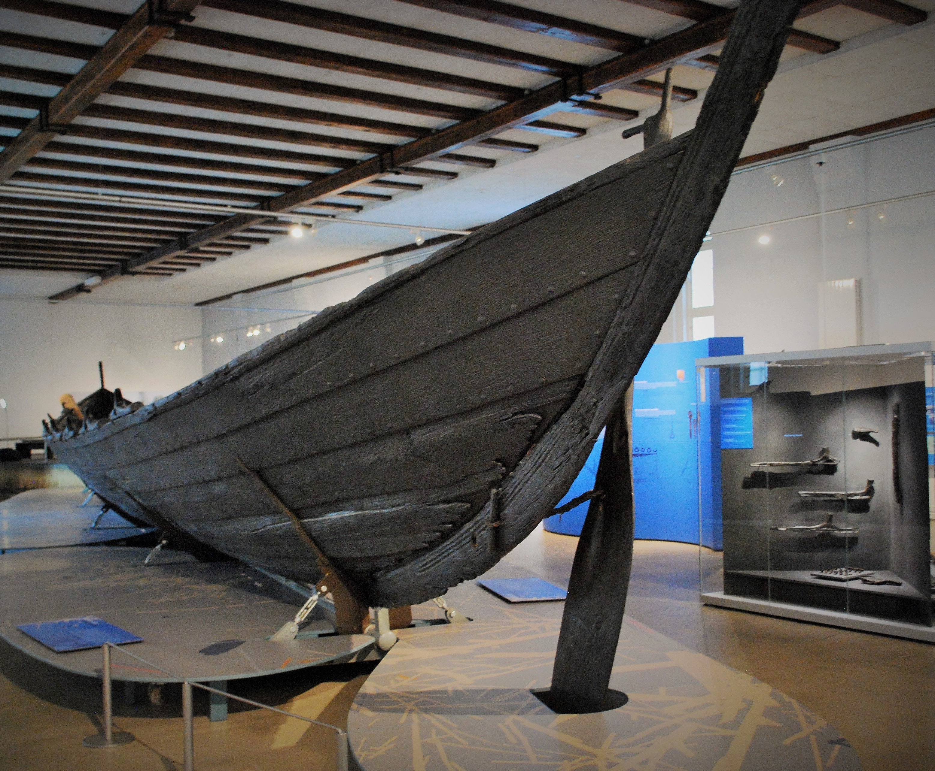 Nydam Boat Gottorp Slot